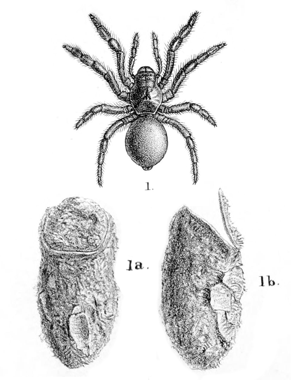 Paramigas subrufus Pocock, 1895 = Paramigas perroti (Simon, 1891). 1. Female (habitus). 1a & 1b. Different views of the nest.